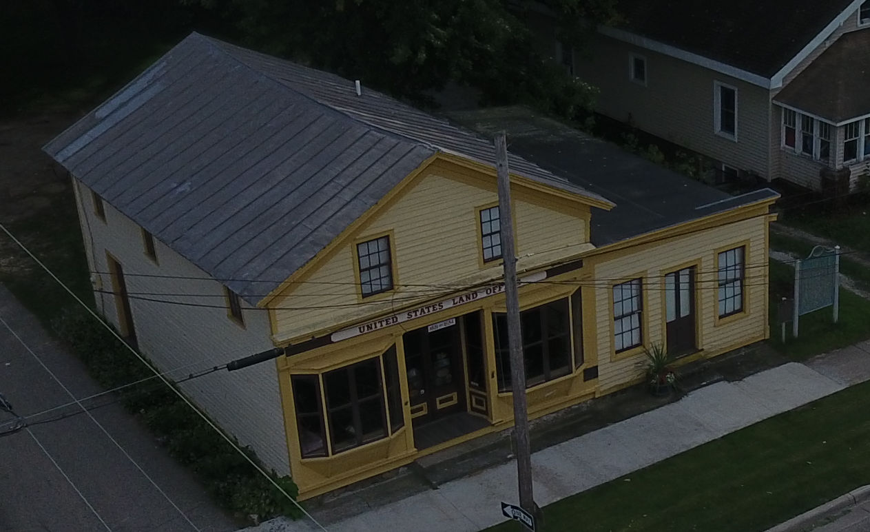 Ariel Photo of Front of the Old US Government Land Office Building, located at 113 W. Chicago Road (U.S. Route 12) in White Pigeon, Michigan, United States. Built in 1831, it is Michigan's oldest extant federal land office and one of just a few remaining throughout the former Northwest Territory. It is listed on the National Register of Historic Places. US-NationalParkService-ShadedLogo.svg